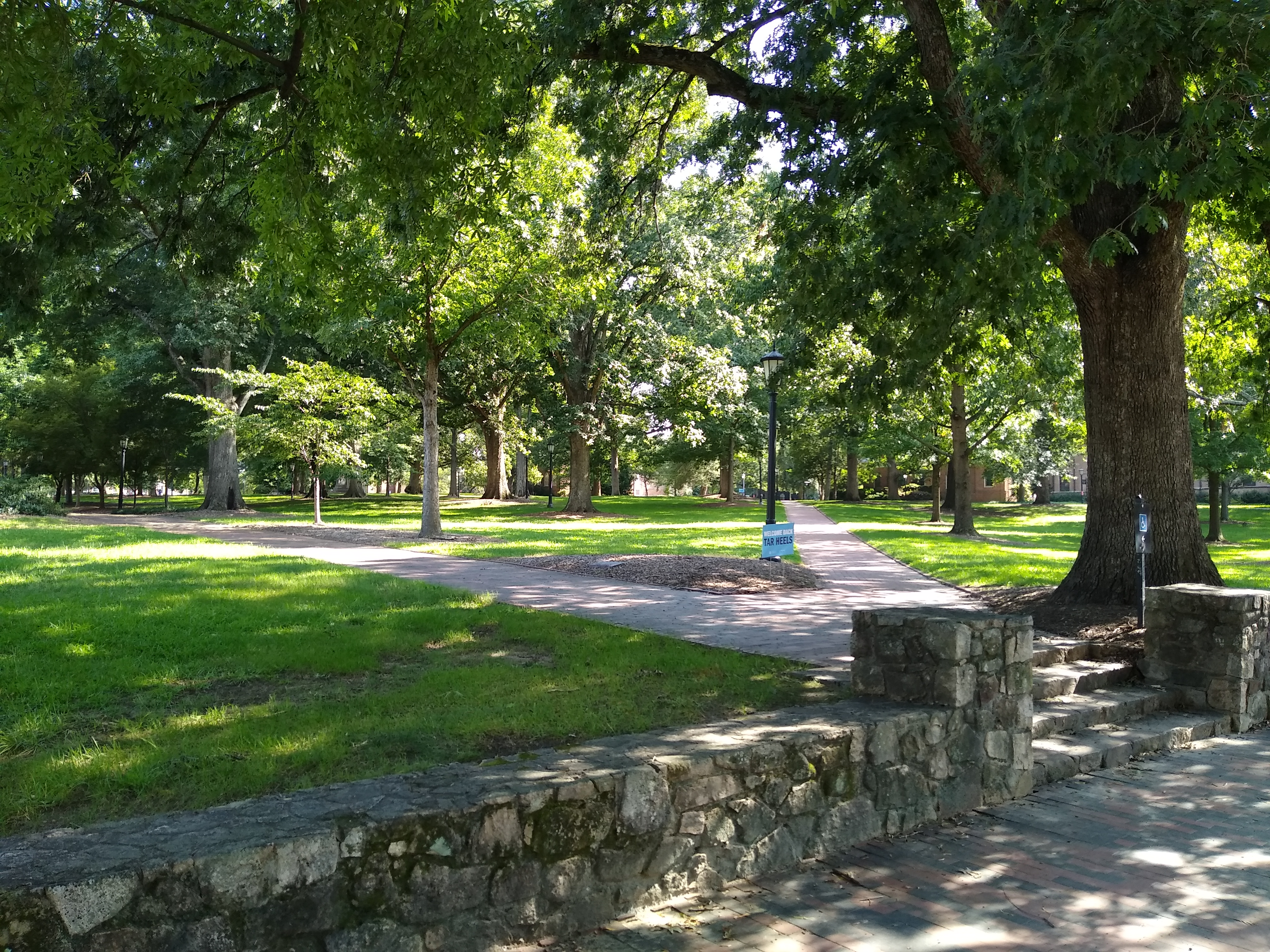 McCorkle Place at the University of North Carolina at Chapel Hill, in August 2020.